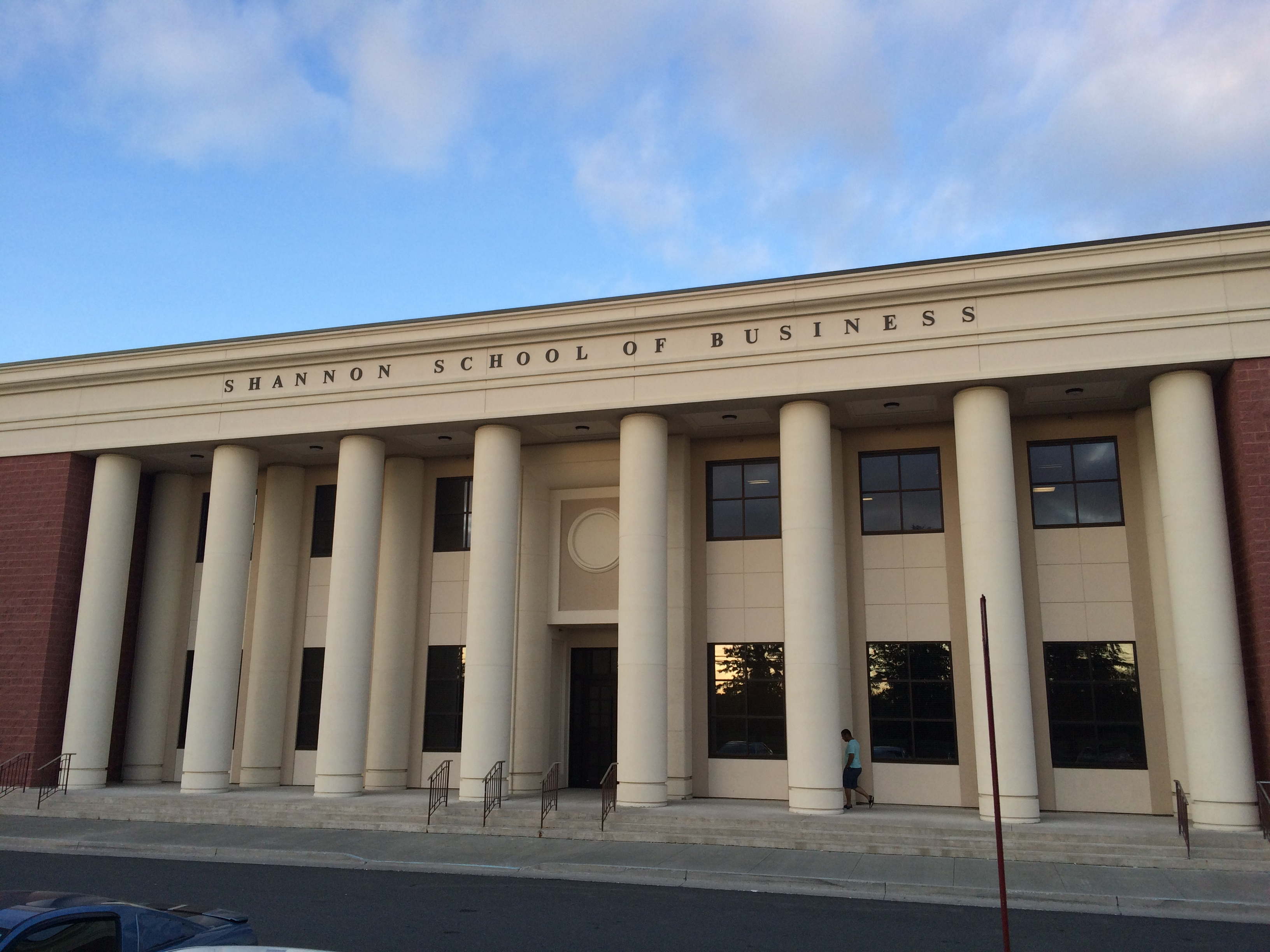 The latest addition, the Shannon School of Business.